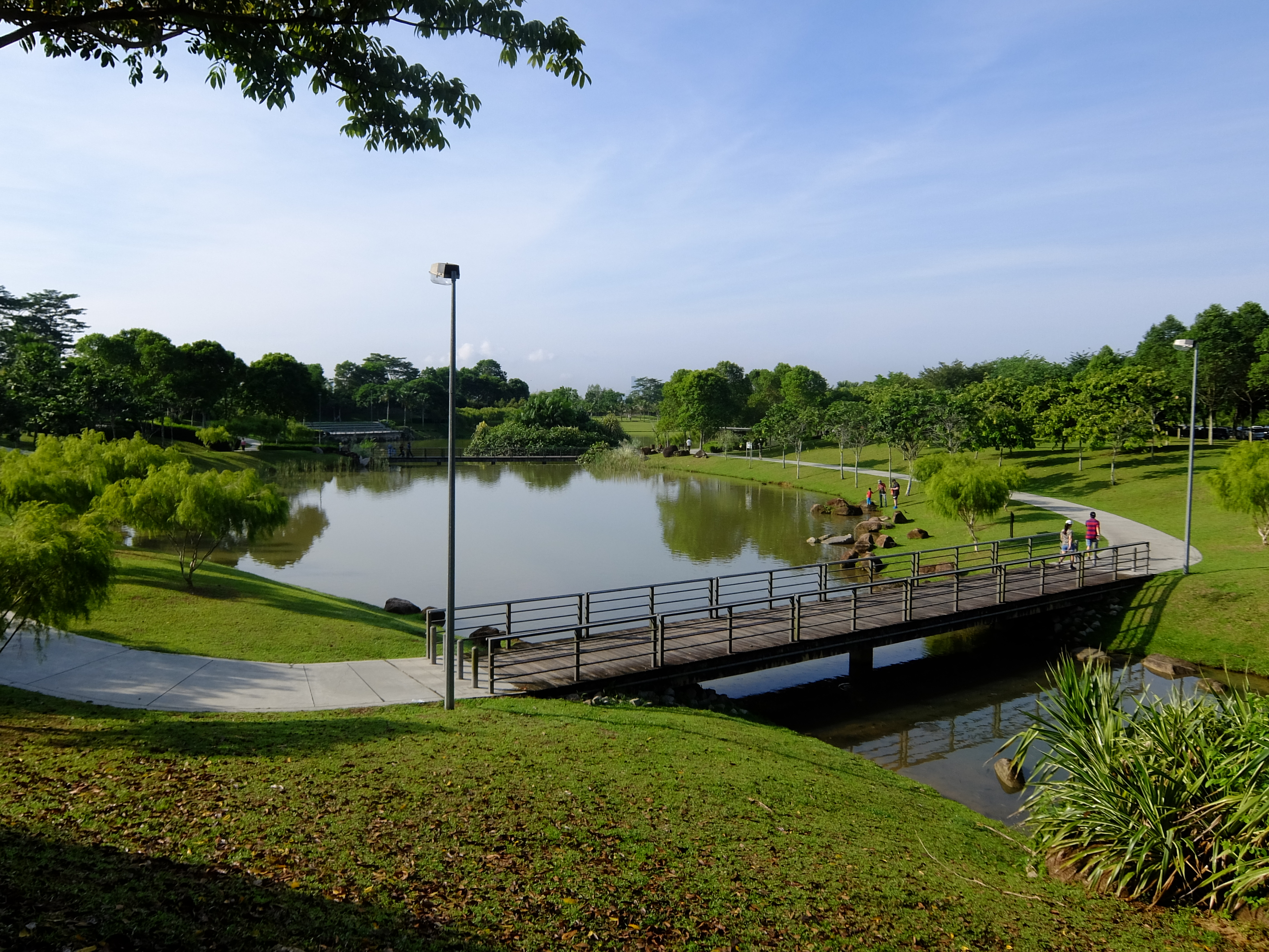 Adda Heights Park, Adda Heights, Johor Bahru, Johor, Malaysia